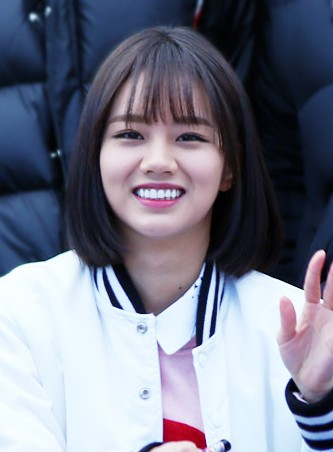 Lee Hye-ri at a fansigning event for "Reply 1988", 25 January 2016